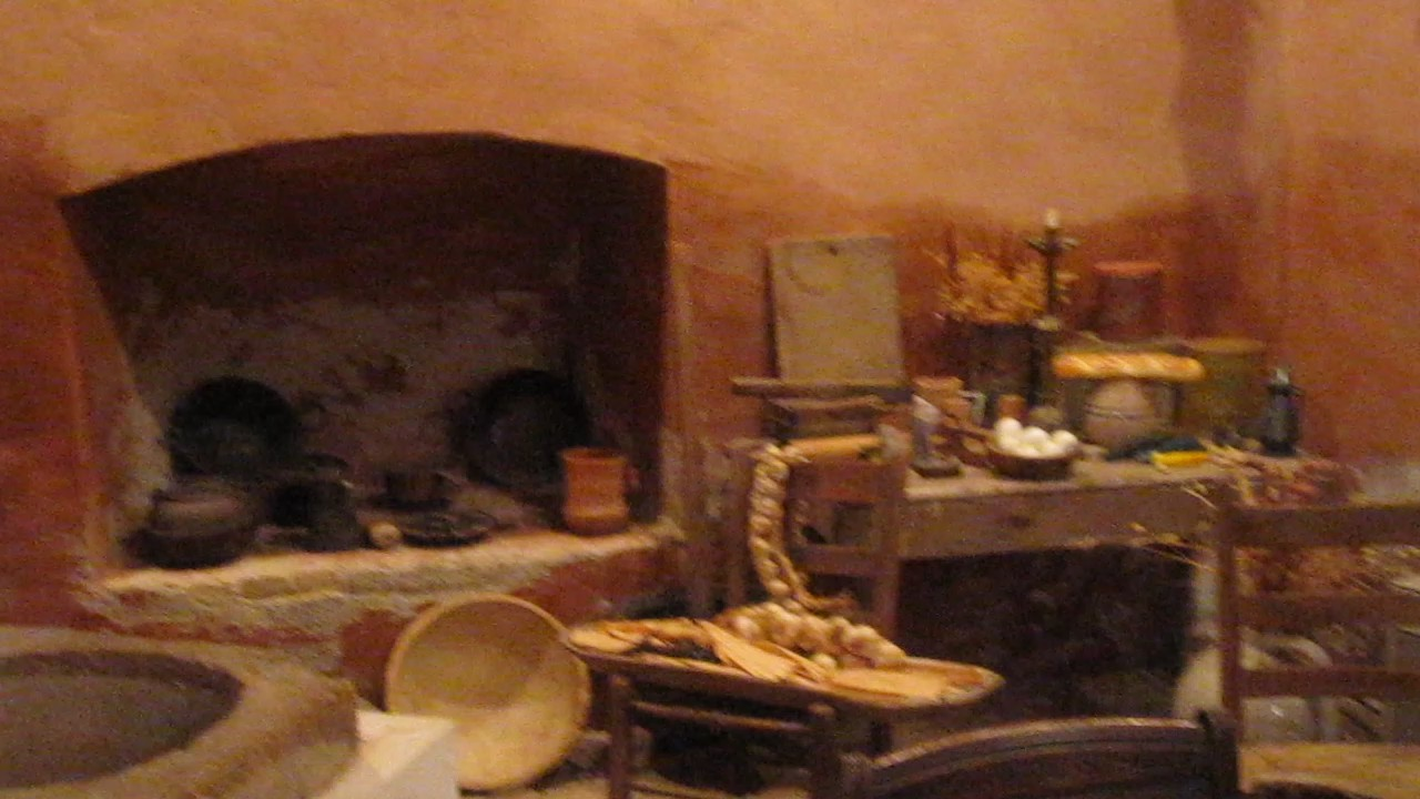 I took picture with Canon camera.